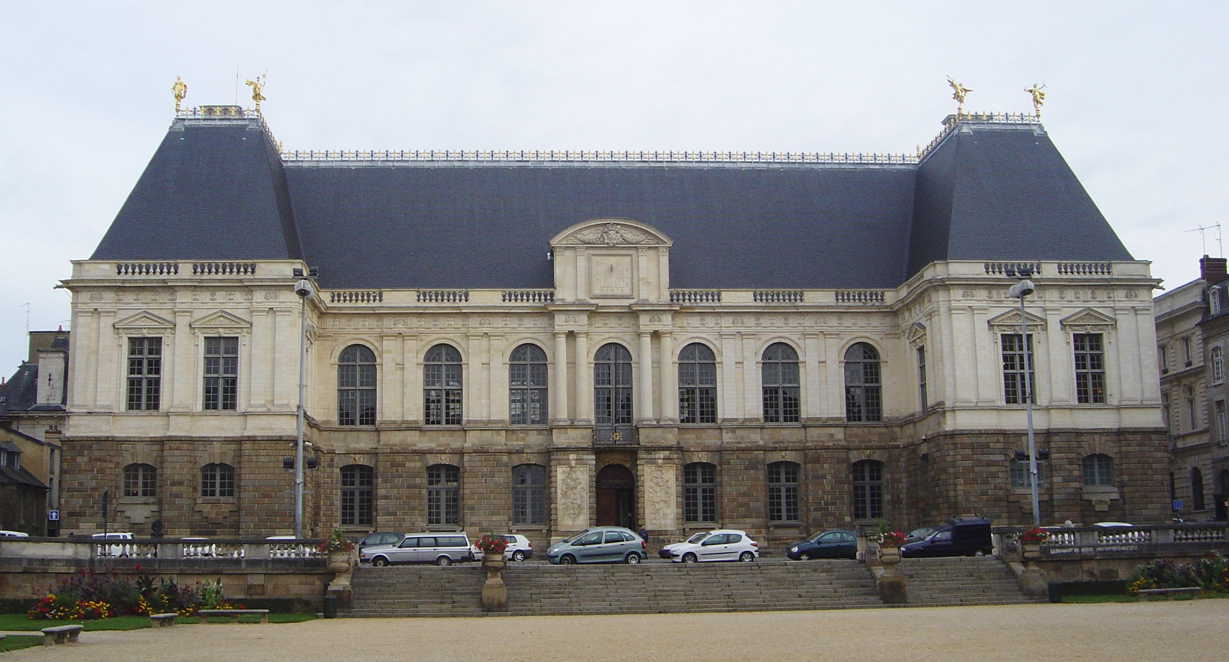 The Parlement de Bretagne (Parliament of Brittany), seat of the courts, in Rennes, France.